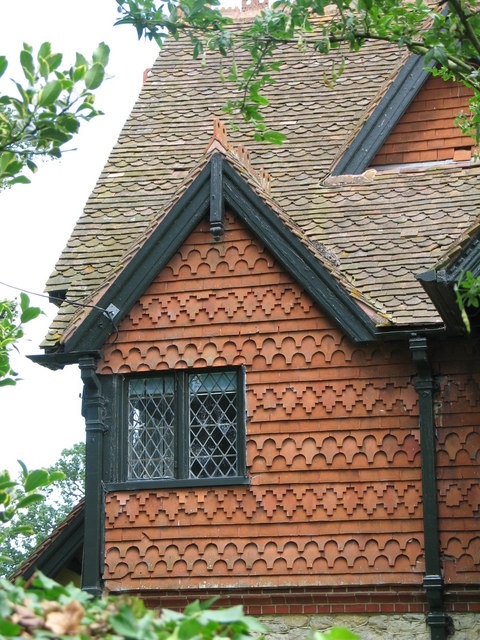 Bridge Lodge at Eythrope, from the North Bucks Way Eythrope is a hamlet and country house - the Eythrope Pavilion - located to the south east of the village of Waddesdon, Buckinghamshire. The hamlet name is Anglo Saxon in origin, and means "island farm", referring to an island in the River Thame that flows by the hamlet. The architect of this fine country house was probably George Devey (1820–1886), a specialist in lodges, cottages and country mansions, whose distinctive style included the use of tiles - much in evidence here - and timbering on external walls. A favourite architect of the Rothschilds, he received numerous commissions from family members (as did fellow architect William Huckvale at Tring, another practitioner of tiles and timbering).